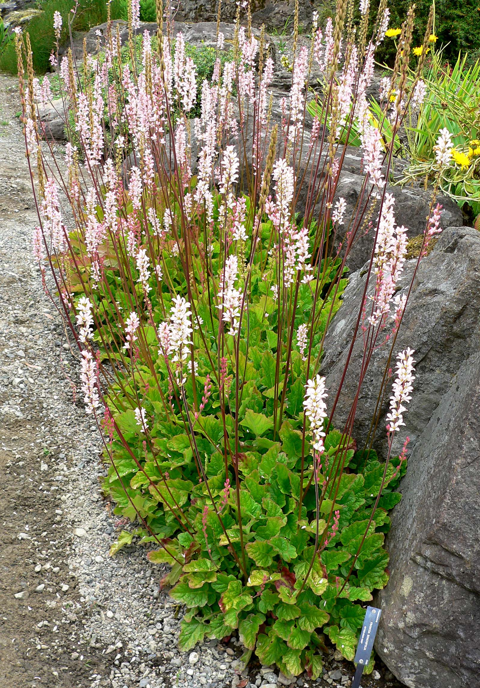 Photo of Francoa sonchifolia at the UBC Botanical Garden